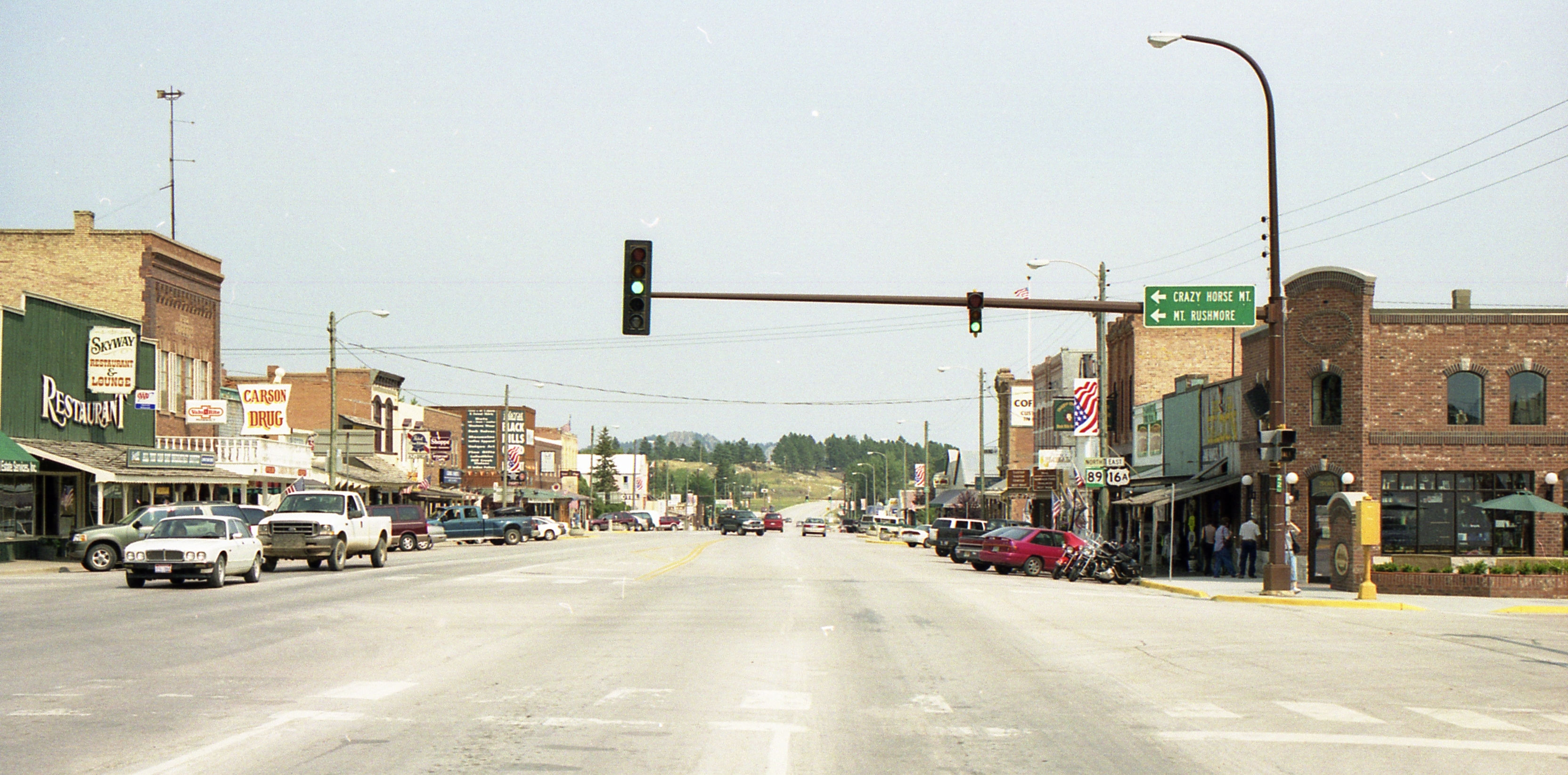 The main street in August 2003